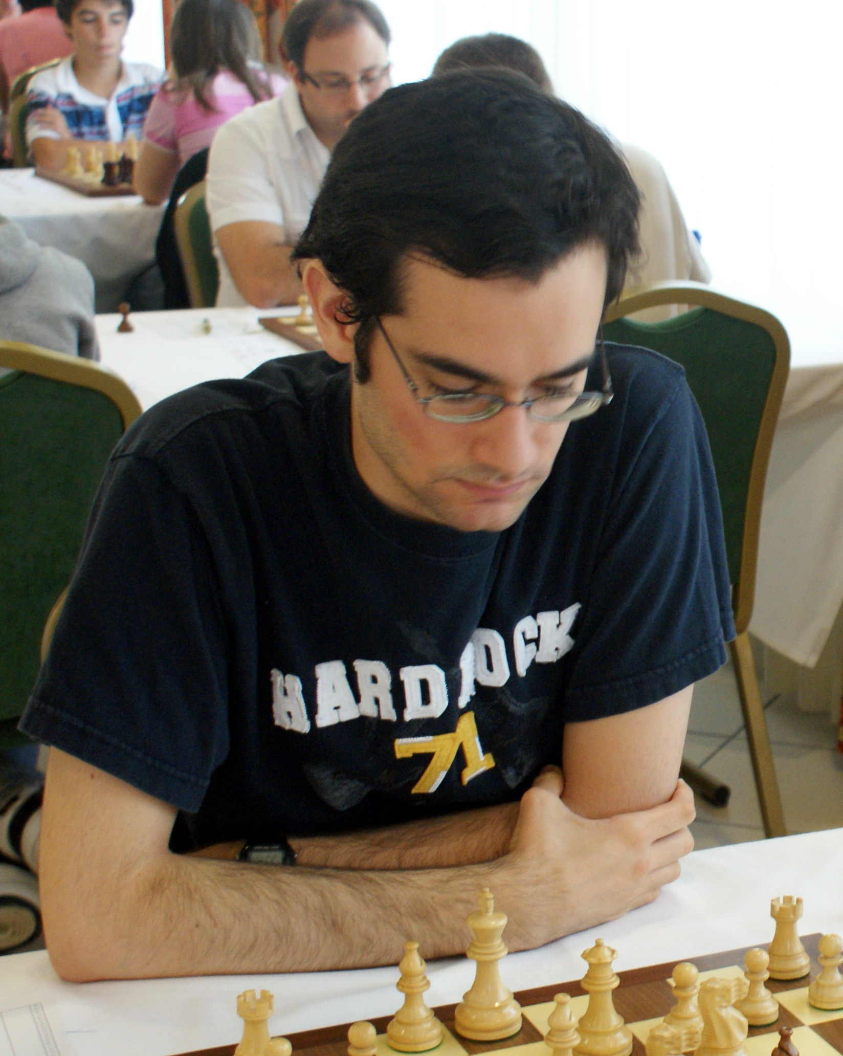 GM Daniel Alsina Leal (Spain) XXVII Obert Internacional d'Andorra Ronda 5 Erts - La Massana